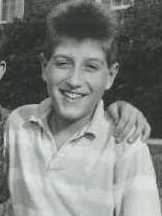 This photo of Ryan White was taken by me (Wildhartlivie) in the spring of 1989 at a fund raising event in Indianapolis, Indiana.